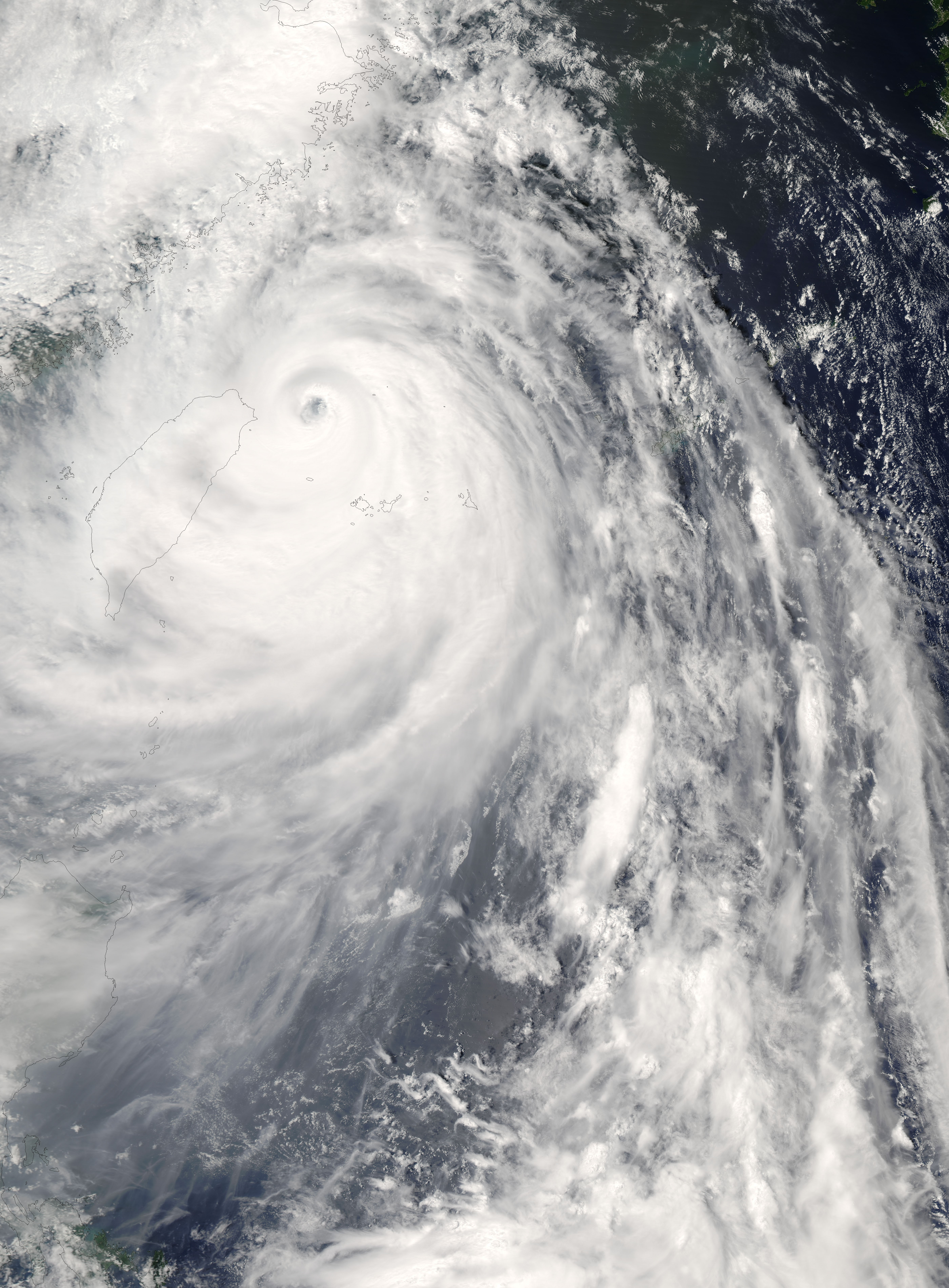 Super Typhoon Wipha was approaching the coast of China on the afternoon of September 18, 2007, when the Moderate Resolution Imaging Spectroradiometer (MODIS) on NASA’s Aqua satellite captured this photo-like image. At the time (12:40 p.m. local time, 4:40 UTC), Wipha had winds between 250 kilometers per hour (155 miles per hour or 135 knots) and 240 km/hr (150 mph or 130 knots), making it a strong Category 4 storm and a Super Typhoon (a typhoon with winds of at least 130 knots). The storm weakened shortly after this image was taken and was forecast to weaken further before making landfall over the densely populated East China coast late on September 18 or early on September 19. Though the storm was weakening, it was anticipated to be the strongest storm to hit China in a decade, reported Xinhua, China’s news agency. In preparation for the storm, the government evacuated about two million people in three provinces, said Xinhua. The storm had already started to soak Taiwan with heavy rains by the time this image was taken. The spiraling bands of rain clouds cover the island in this image, though the dark, well-defined eye remains offshore to the north. The image also reveals just how large Wipha was. Including its outer bands, which stretch from the Philippines (visible in the large image) in the south to the East China coast in the north, Wipha sprawls over several hundred kilometers. The high-resolution image provided above is at MODIS’ full spatial resolution (level of detail) of 250 meters per pixel. The MODIS Rapid Response System provides this image at additional resolutions.